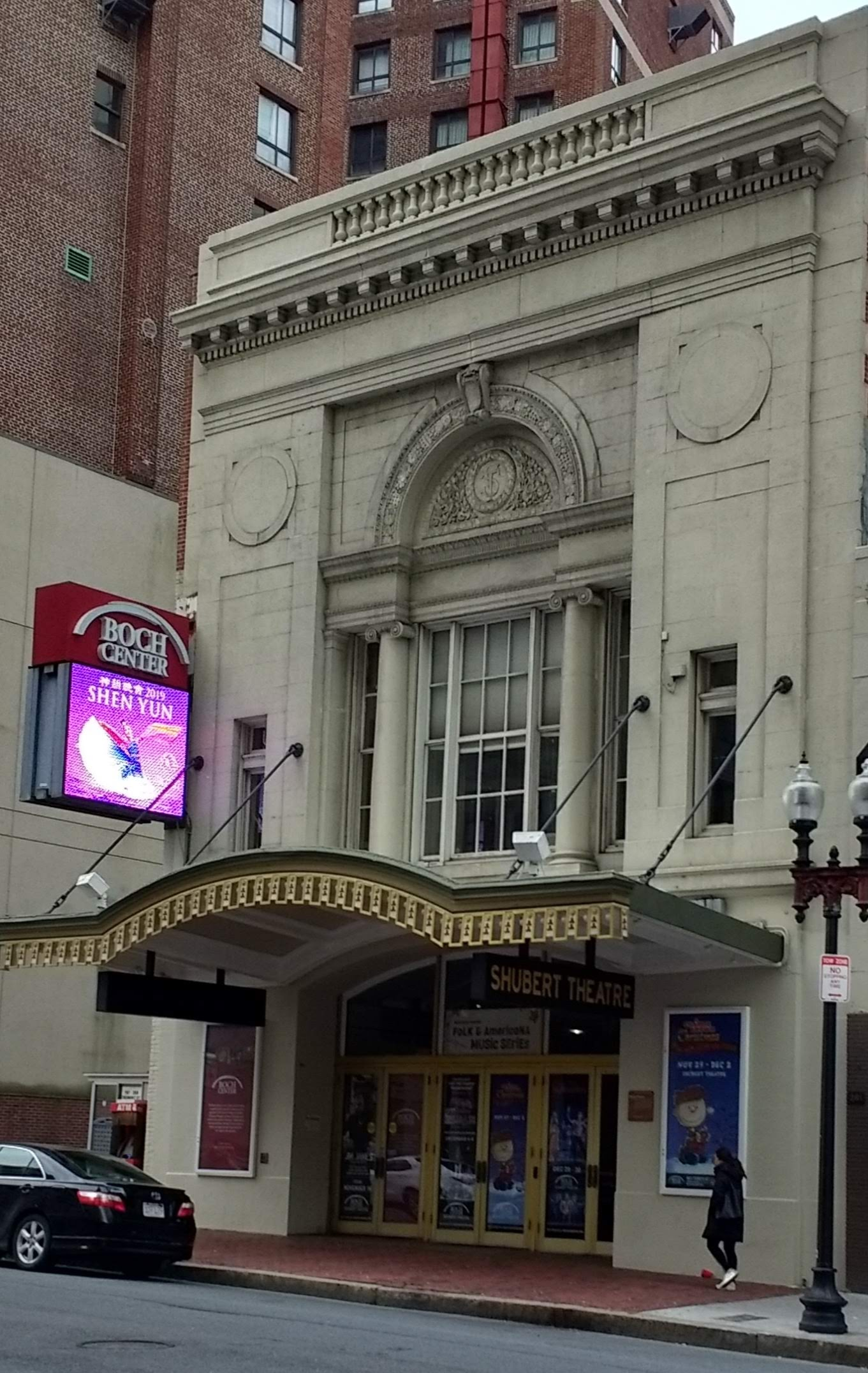 The Shubert Theatre at the Boch Center in Boston, Massachusetts.